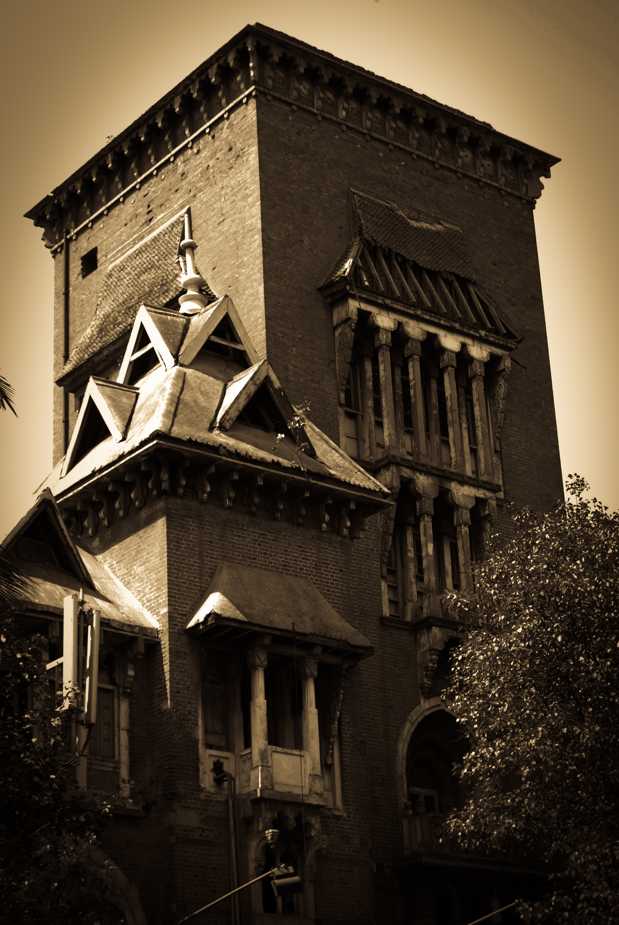 The G.P.O. the site for the construction of the building was finally selected in 1873 and the construction work entrusted to Mr. R.F. Chosolm. Construction started in 1874. The magnificent, red-painted 55,000-square foot General Post Office building might be described as a Victorian County-Colonial or Victorian Gothic-Colonial overlay on Indo-Saracenic. This building, yet another Chisholm design with 125-foot tall twin towers, was built on the site of the Abercrombie Battery at a cost of about Rs. 8 lakh.